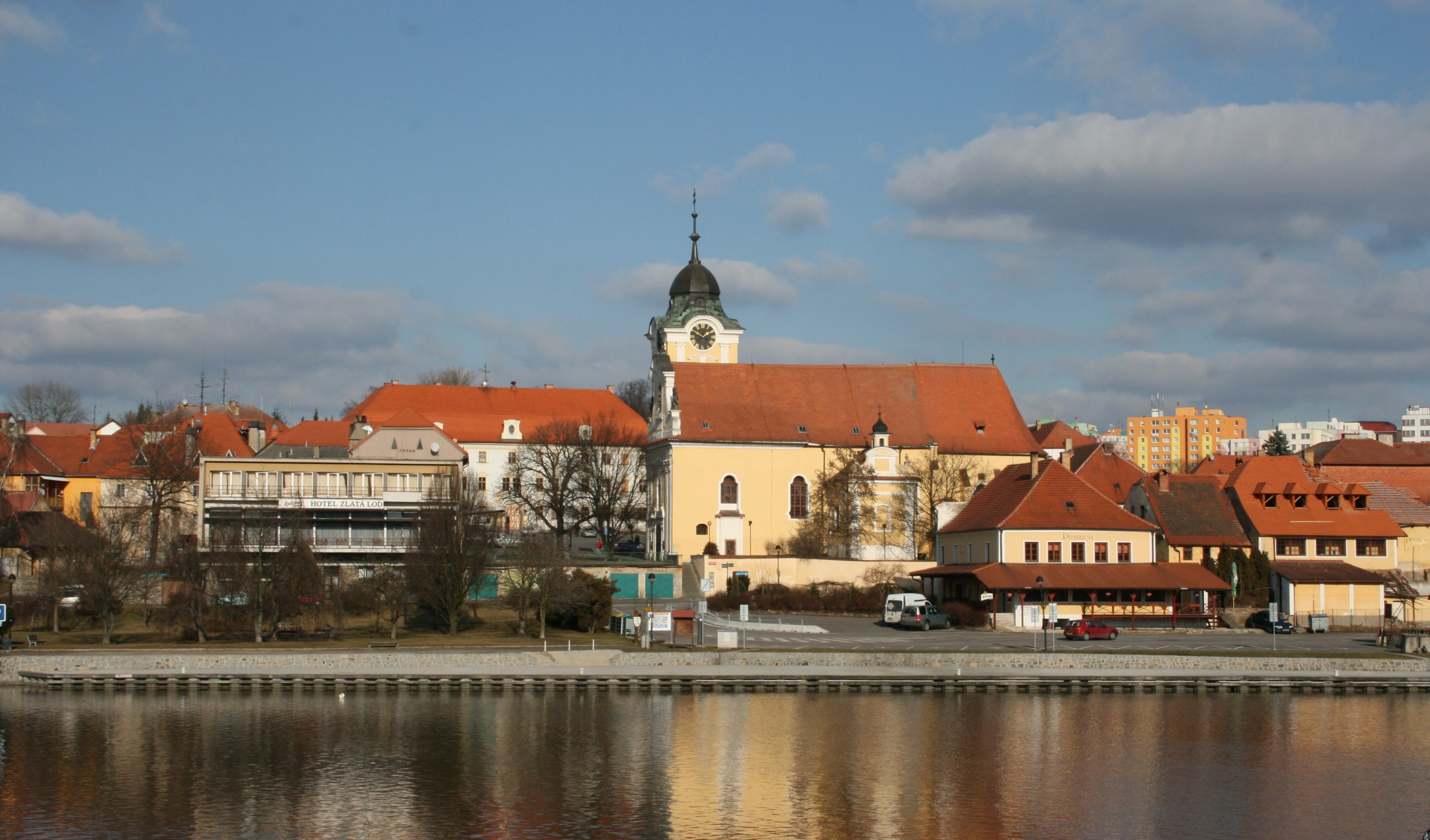 Town Týn nad Vltavou, České Budějovice District, Czech Republic.